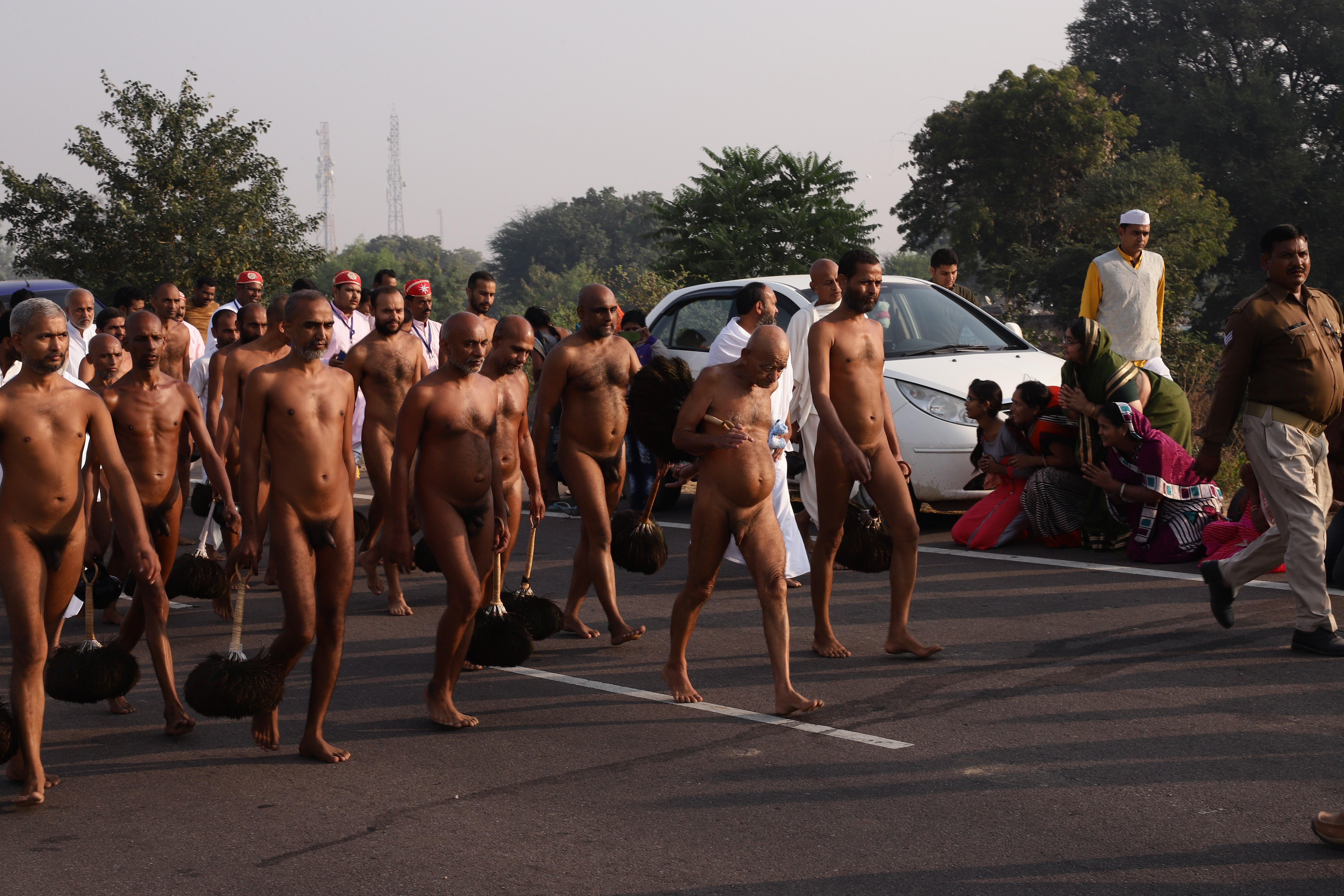 Maharajji 1